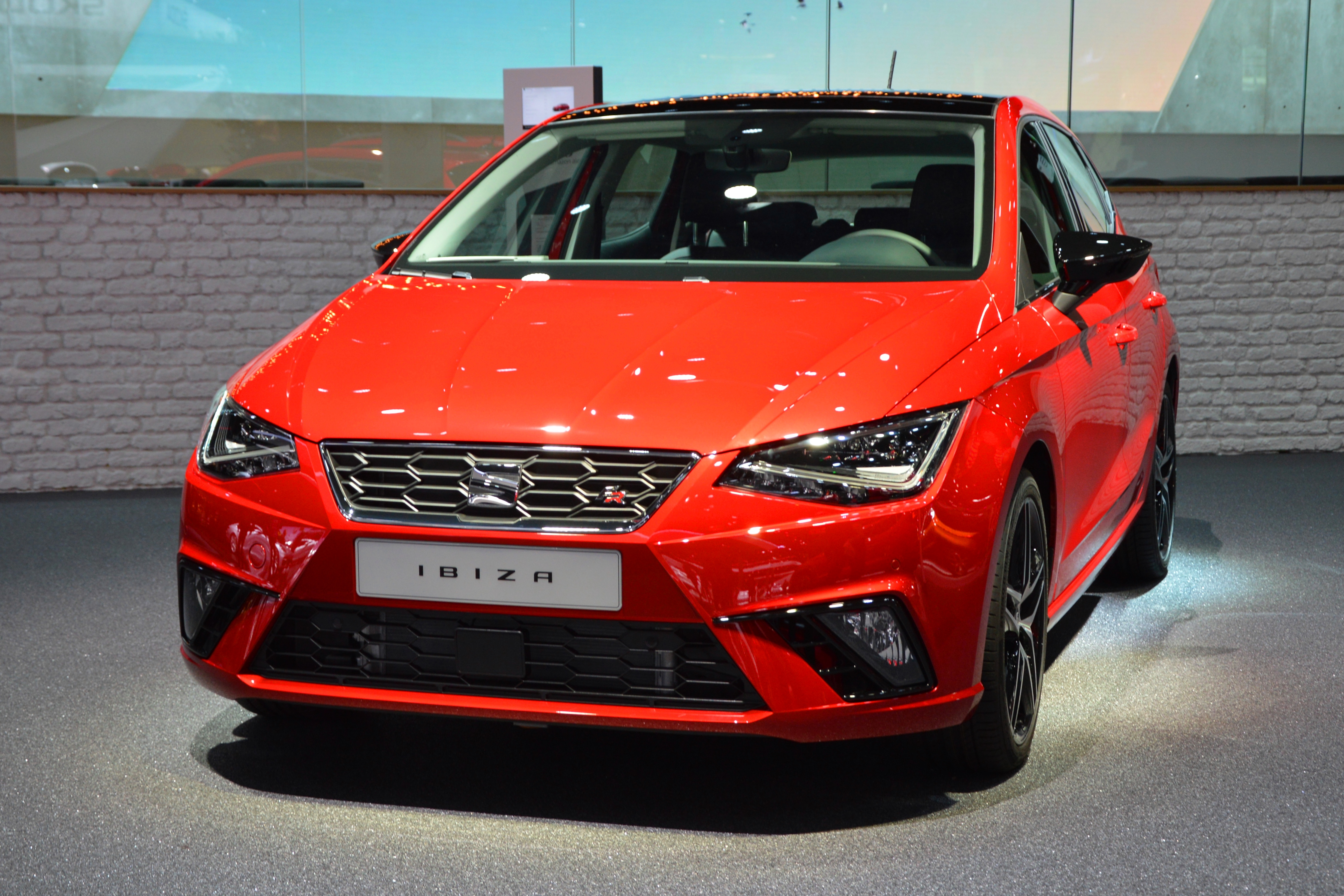 Seat Ibiza FR 1.0 Eco TSI 85 kW (115 hp). Photo taken at IAA 2017.